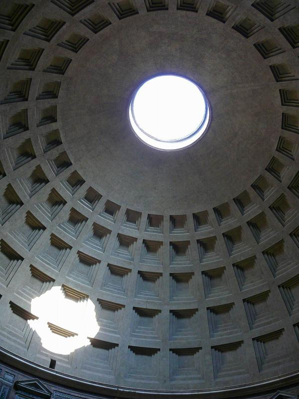 The opeion (oculus)